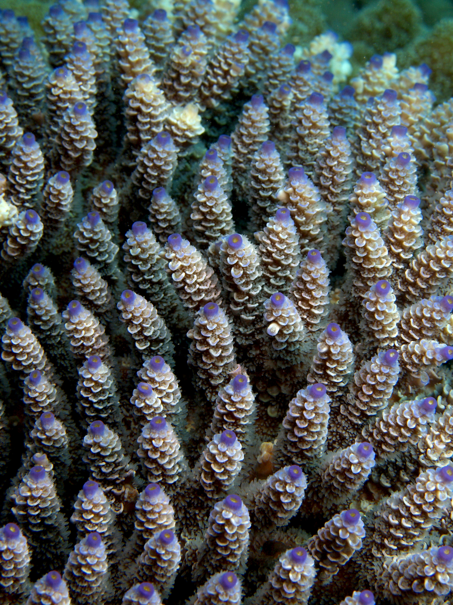 Acropora secale (Hard coral)